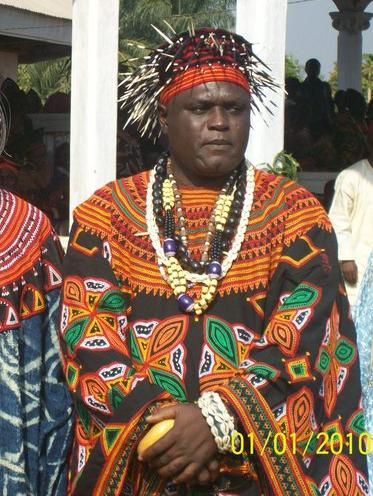 A portrait of H.R.H Fon R.A.M Tebo II of Batibo